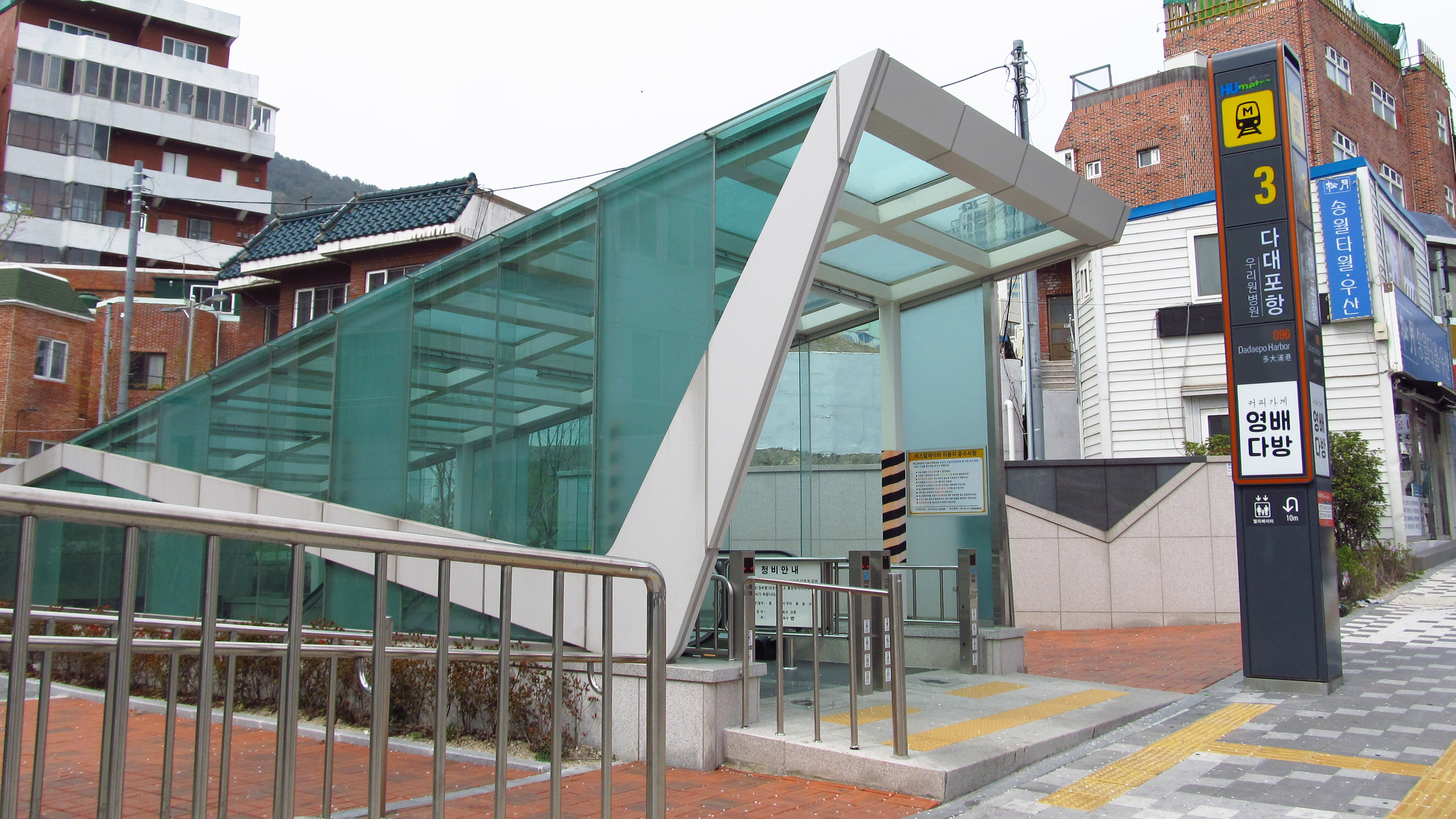 The no.3 entrance to Dadaepo Harbor Station on the Busan Subway Line 1 in Saha-gu, Busan, Republic of Korea(South Korea)